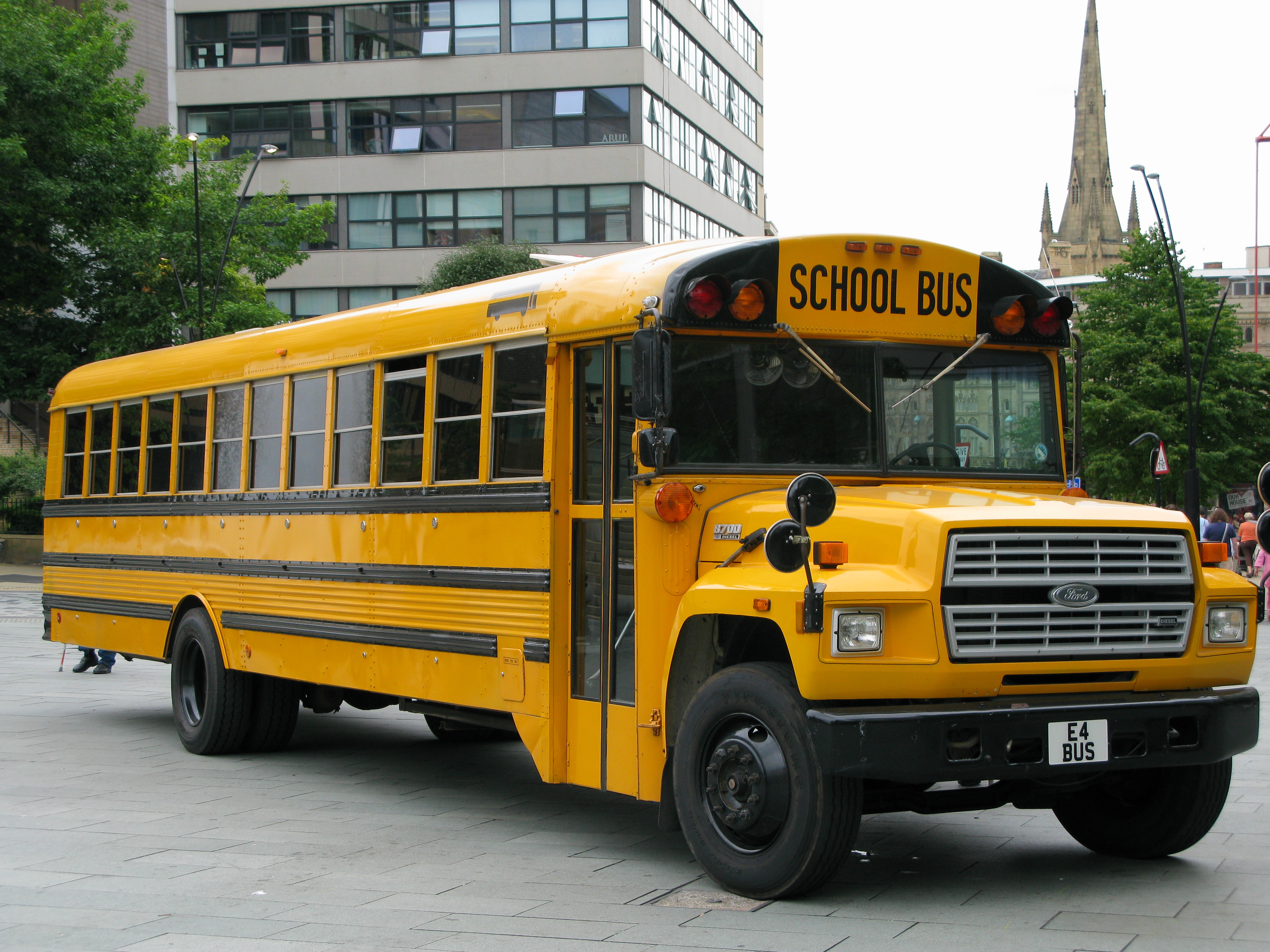 Retired 1980s Thomas Conventional body on Ford B700 chassis. Bus is located in Sheffield, England, United Kingdom.